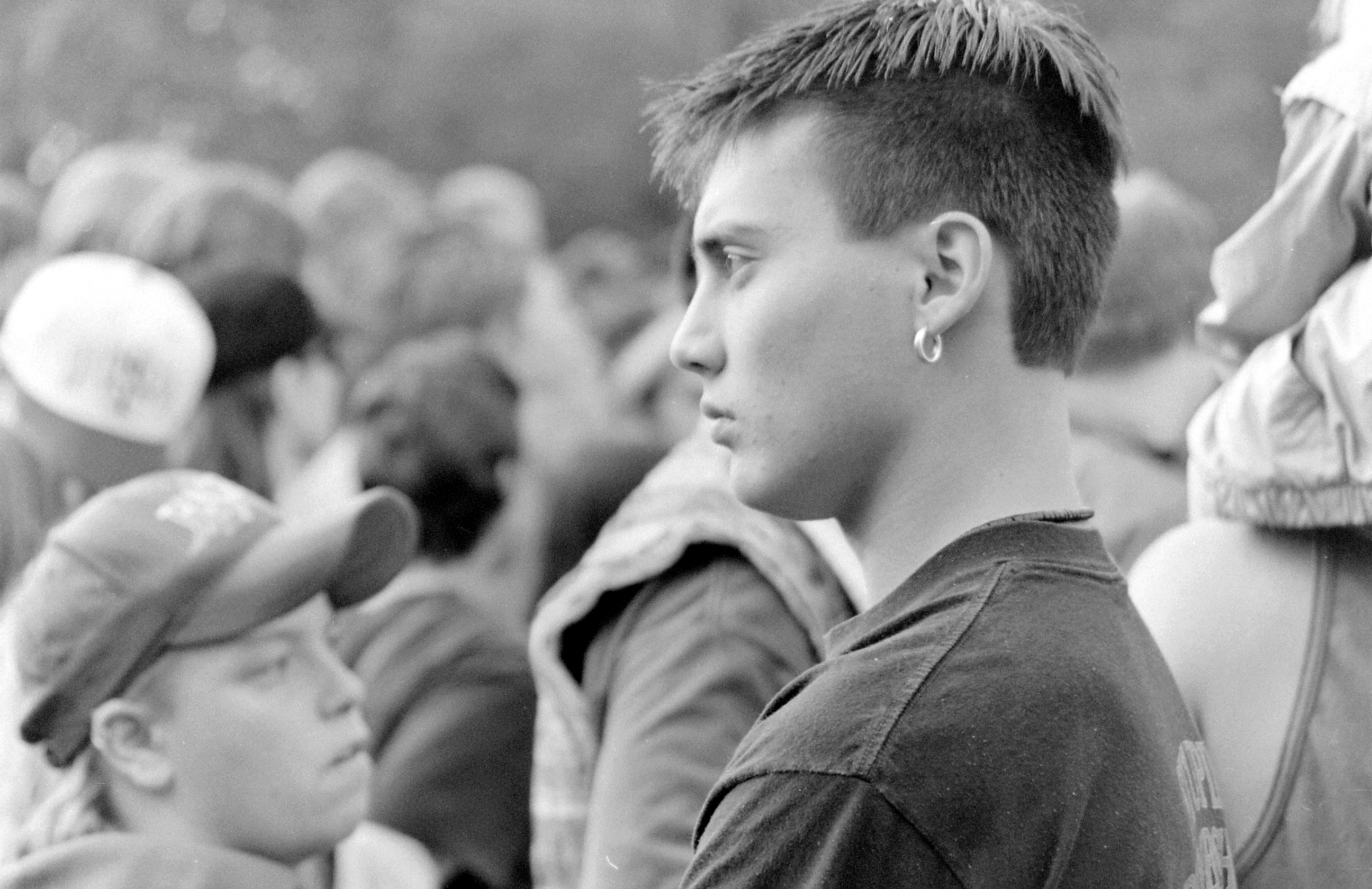 Young man in the audience at a Pain in the Grass concert, Mural Amphitheater, Seattle Center, Seattle, Washington, USA. The concert featured 7 Year Bitch, Bloodloss, and Sleep Capsule.